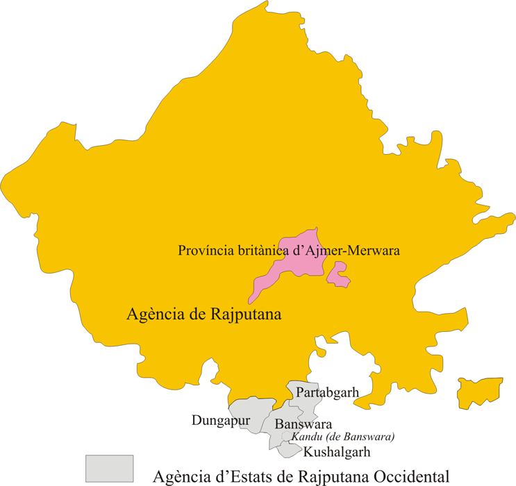 Western Rajput states agency (since 1906)